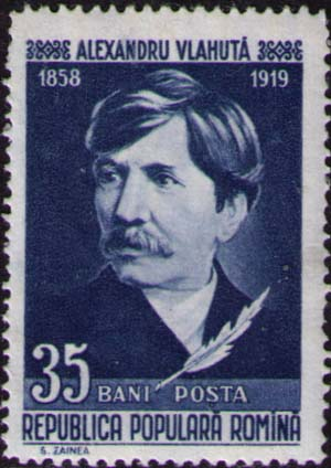 1958 Romanian Post, 35 bani, blue, representing Alexandru Vlahuţă (1858-1919); Series:Romanian Writers; Design: S. Zainea Michel stamp catalogue (East-Europe part 4) number: 1703